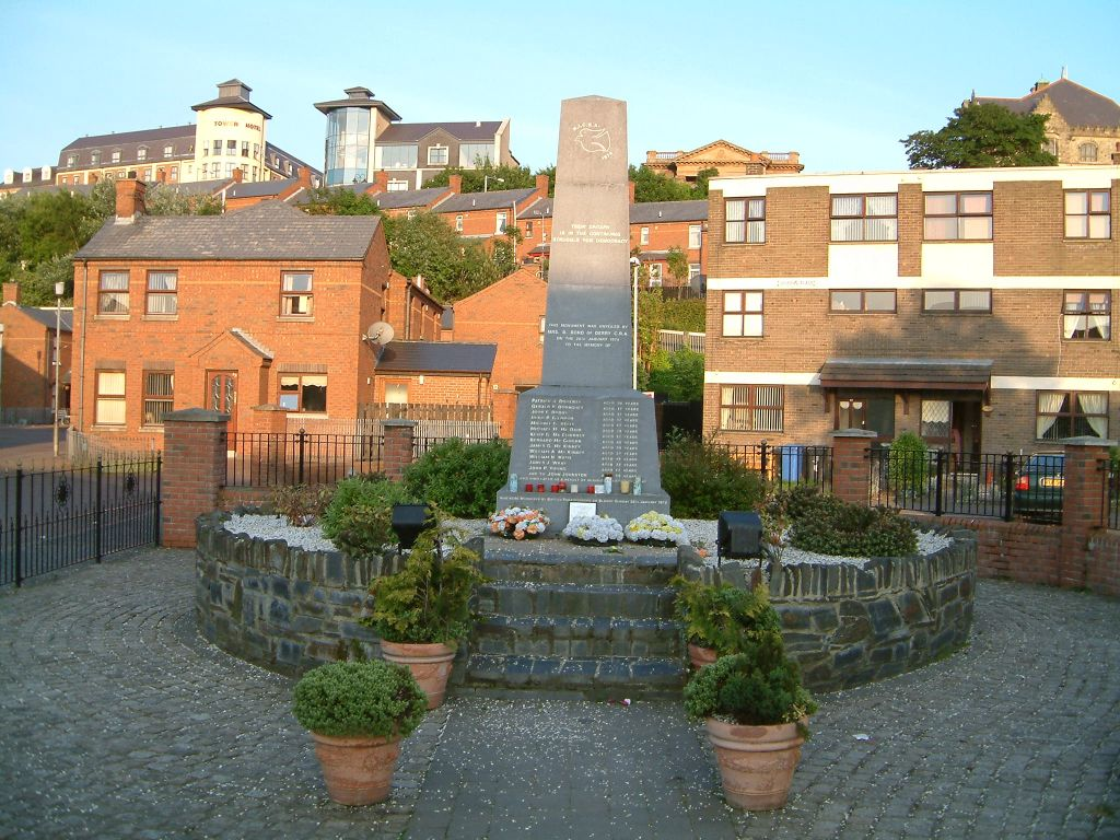 Taken by myself in 2005.